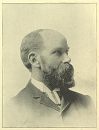 Hugh Blain Title: The Canadian Album Men of Canada; or, Success by Example, in Religion, Patriotism, Business, Law, Medicine, Education and Agriculture; Creator: Cochrane, William (editor) Publisher: Brantford, ON : Bradley, Garretson & Co. Date: 1891 Possible Copyright Status: NOT_IN_COPYRIGHT